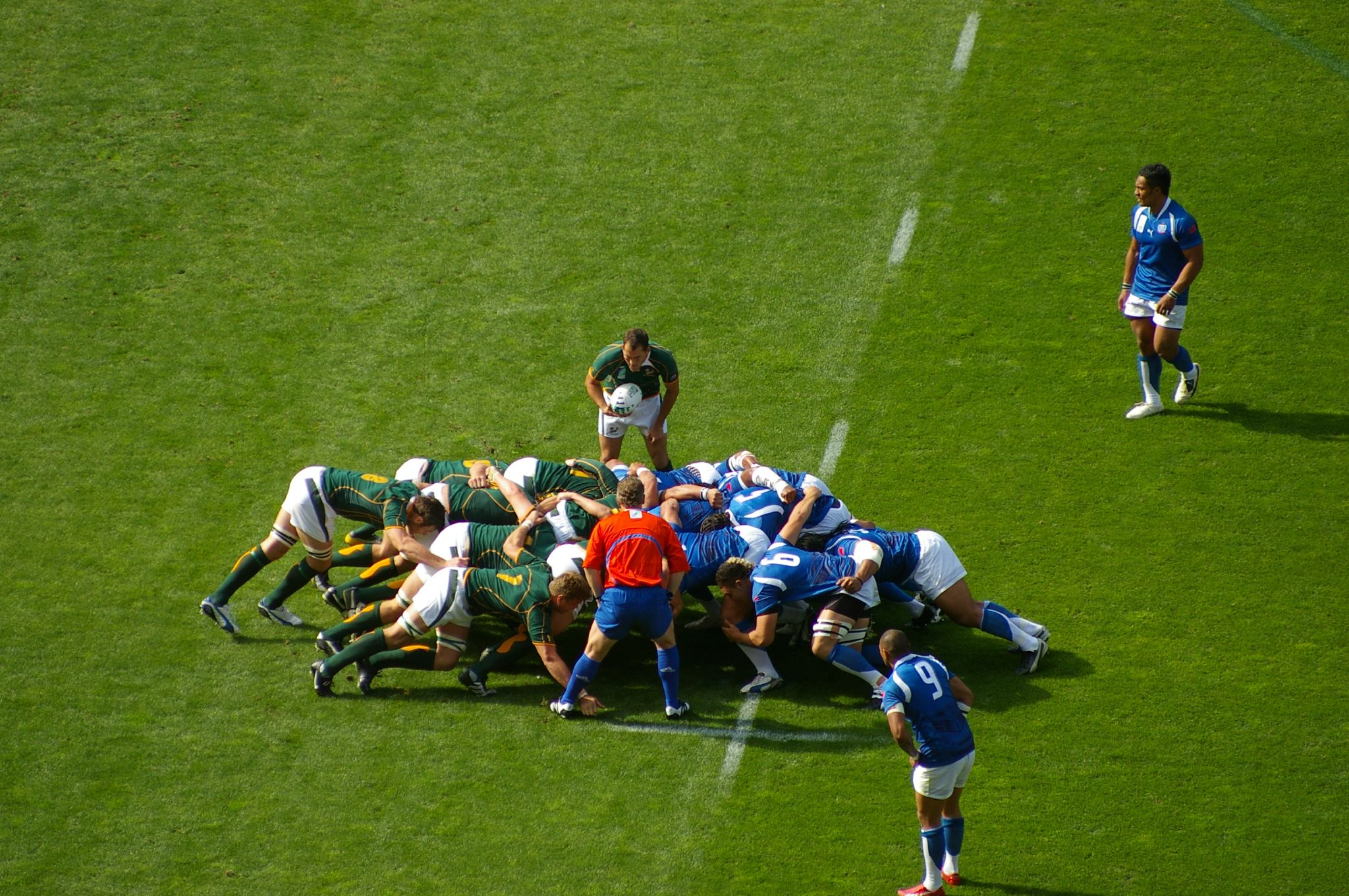 South Africa - Samoa Rugby World Cup 2007 Paris. Parc des Princes